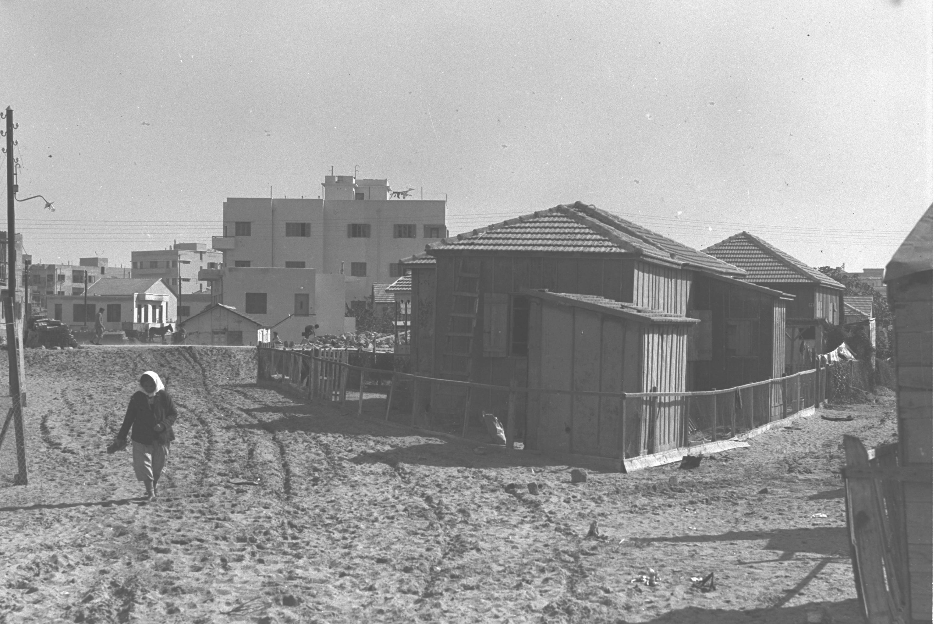 HUTS AND HOUSES ON DIZENGOFF STREET IN TEL AVIV. בתים וצריפים ברחוב דיזינגוף בתל אביב.